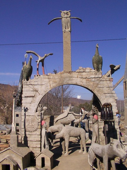 Sculptures at The Owl House, a national monument in Nieu Bethesda, South Africa